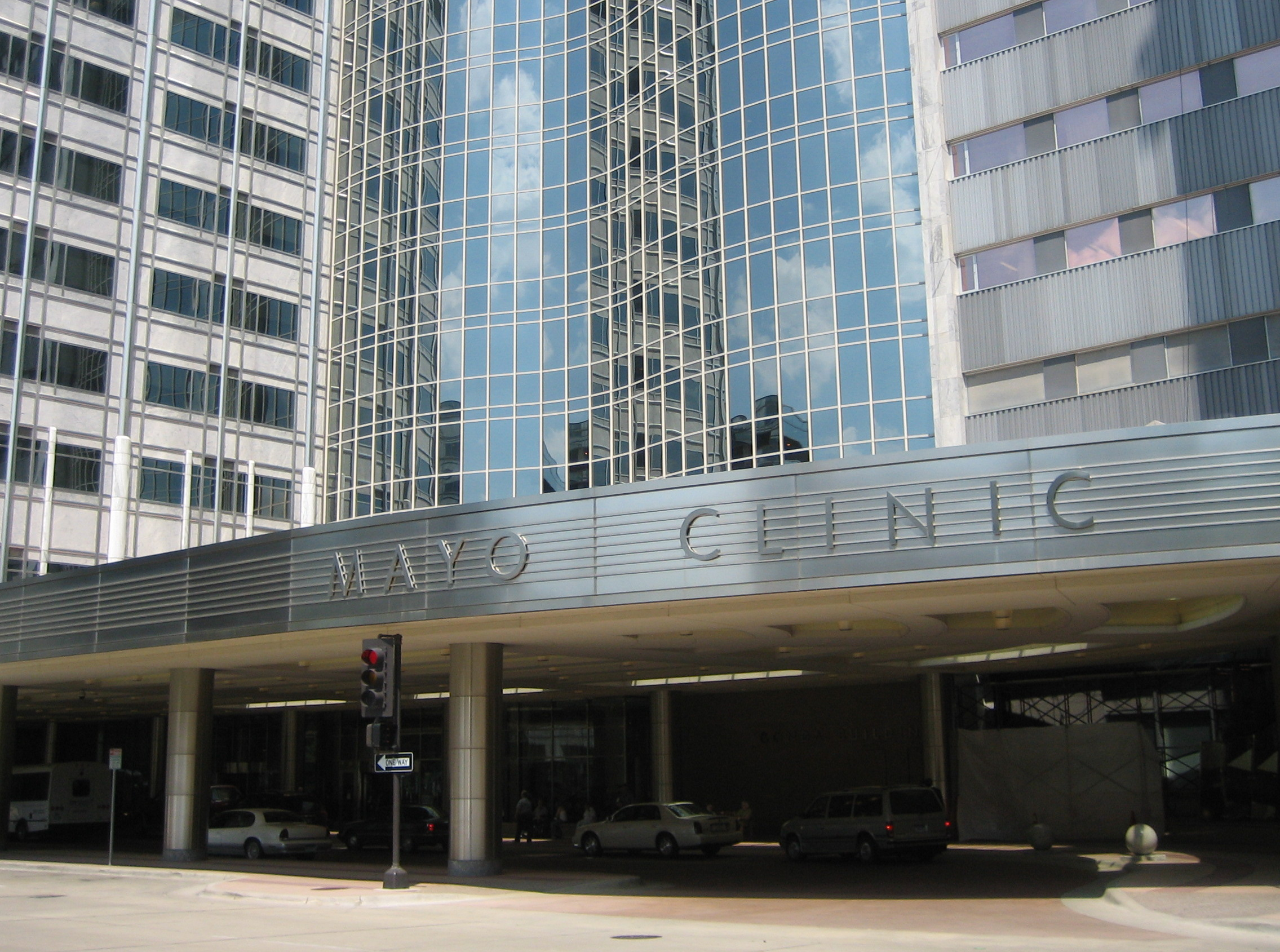 Mayo Clinic Rochester Minnesota - Gonda Building (3rd Avenue SW)